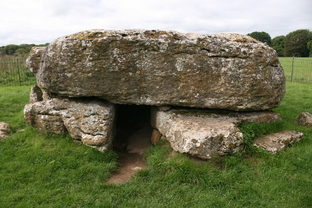 Lligwy Burial Chamber